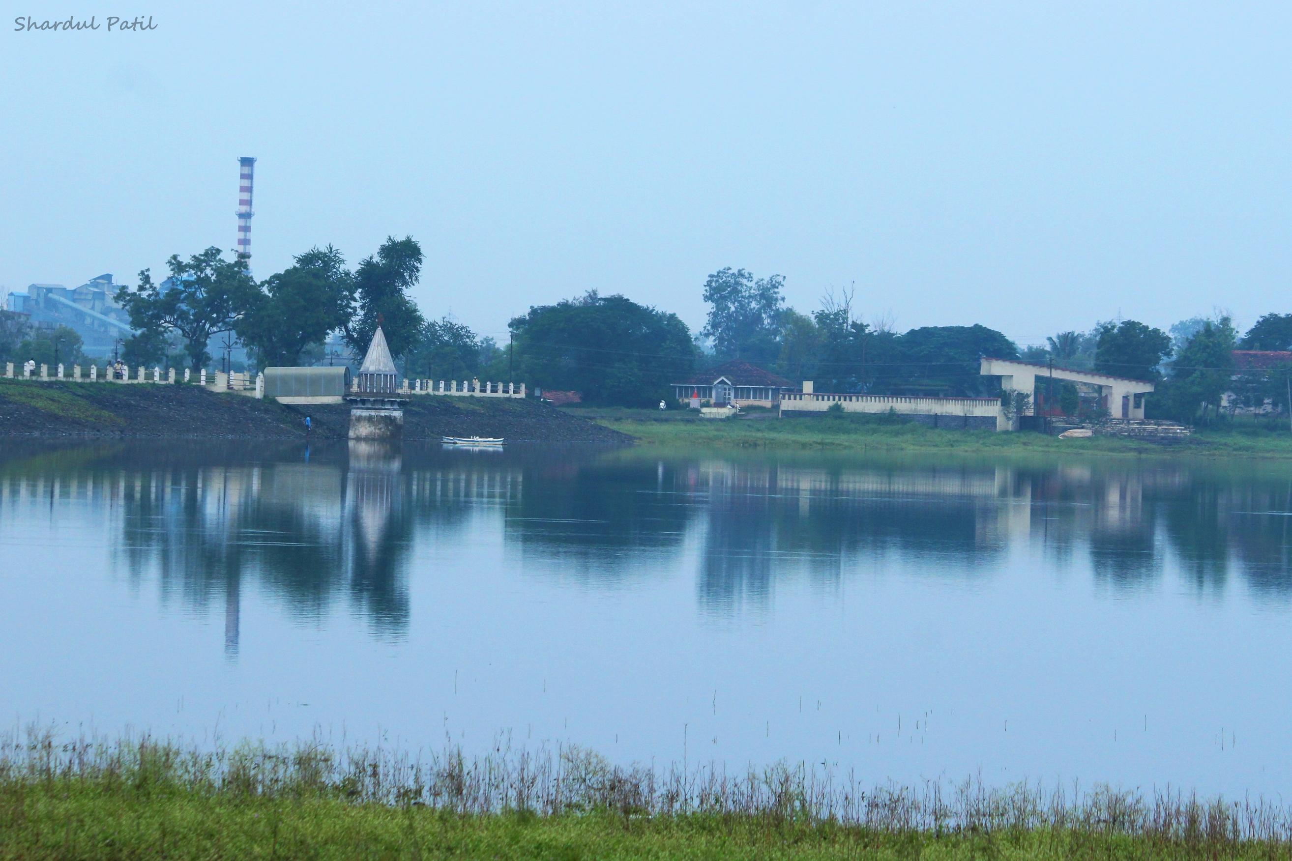 Public pond in Kagal, Maharashtra